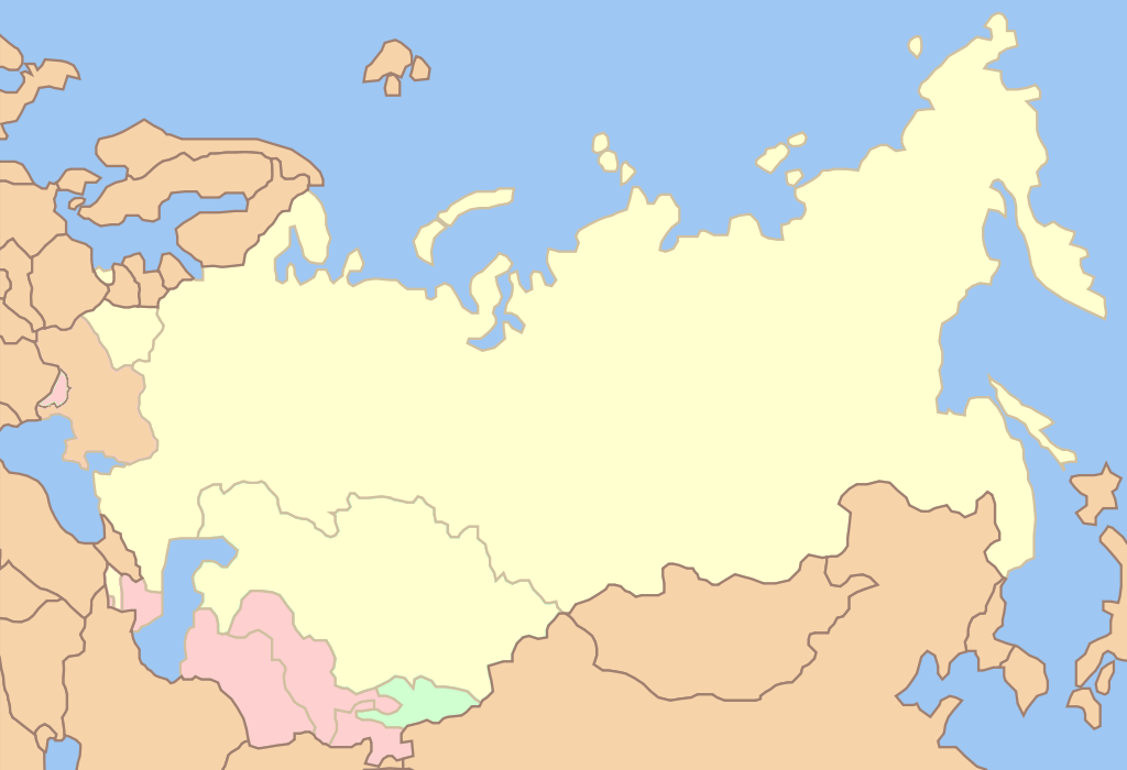 Map of Member States and Acceding States to the Eurasian Economic Union, as of January 2, 2015 EEU members Acceding EEU Members Other CIS Members